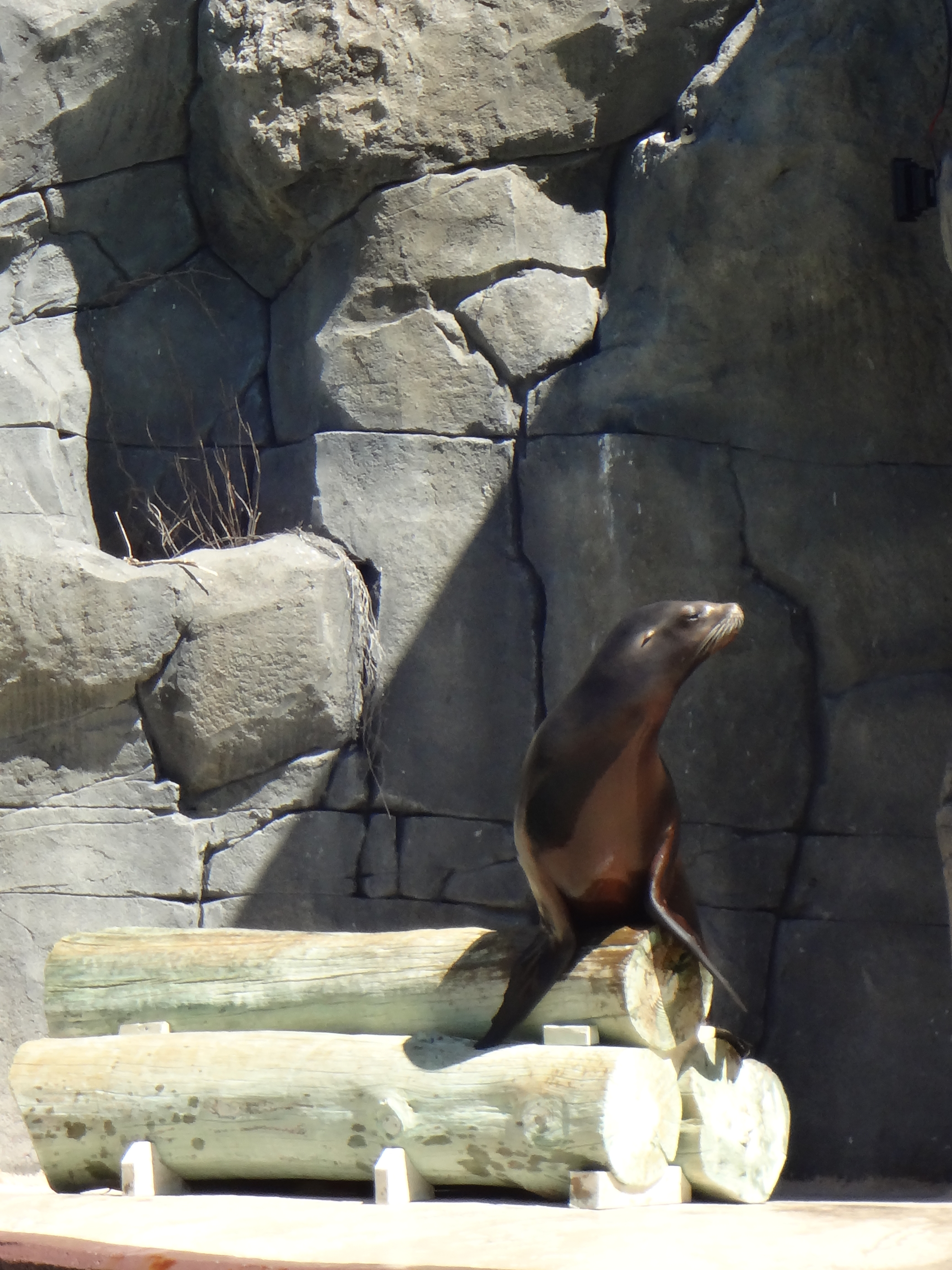 Faunia in Madrid, Spain